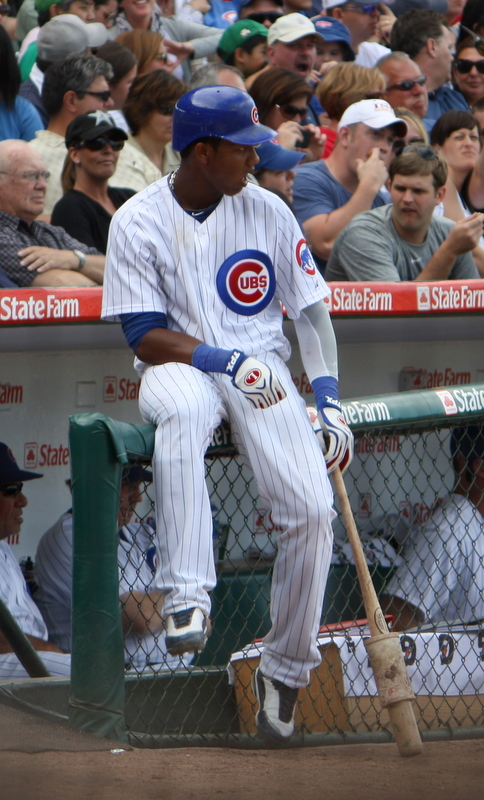 Starlin Castro of the Chicago Cubs waits to bat in 2010.